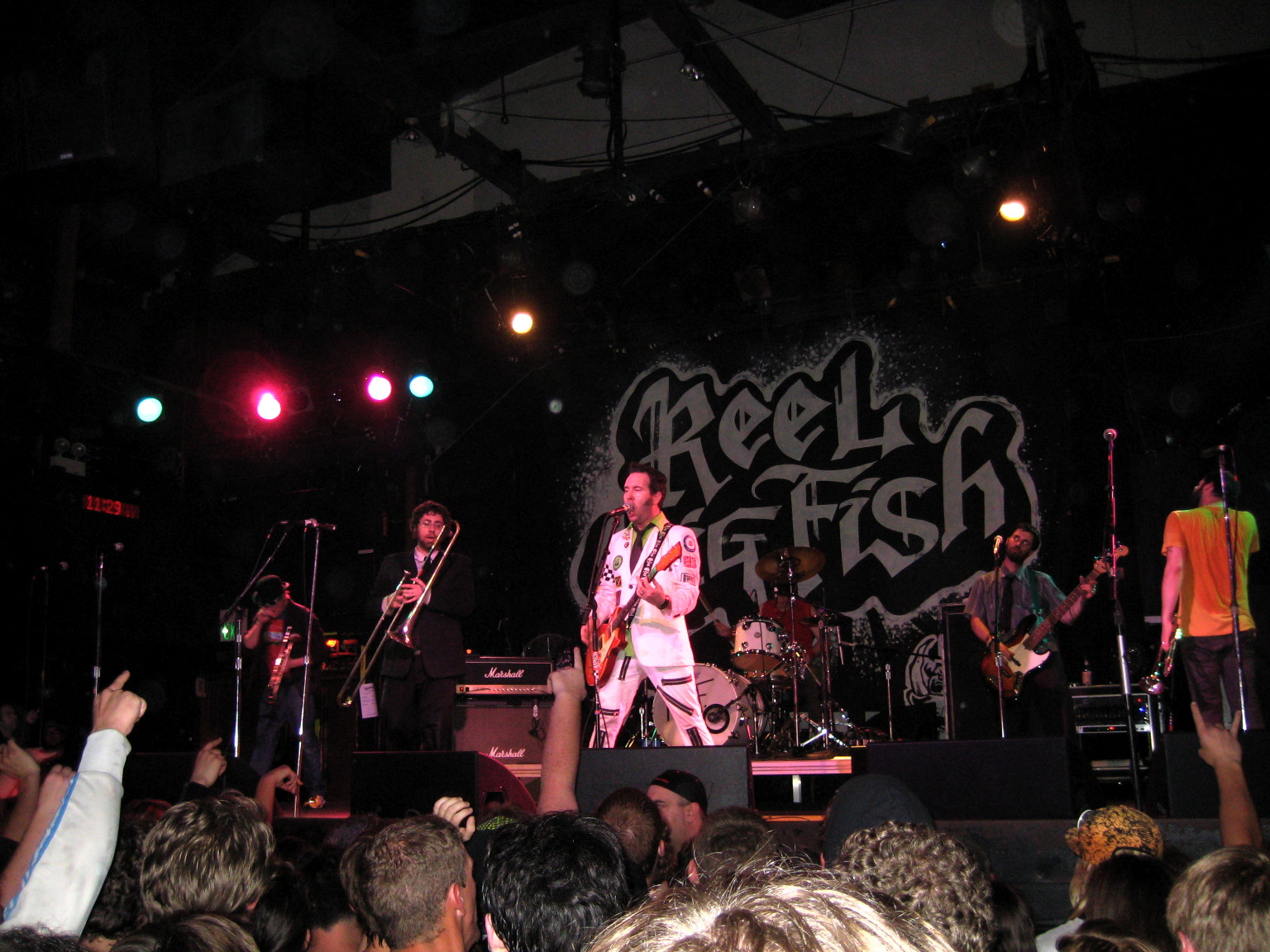 Reel Big Fish performing at The Catalyst in Santa Cruz, California on March 27, 2008. Left to right: John Christianson (trumpet), Dan Regan (trombone), Aaron Barrett (vocals/guitar), Ryland Steen (drums), Derek Gibbs (bass), and Scott Klopfenstein (trumpet, guitar, backing vocals).